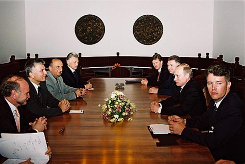 BELGRADE. President Putin meeting with Serbian Prime Minister Zoran Djindjic.